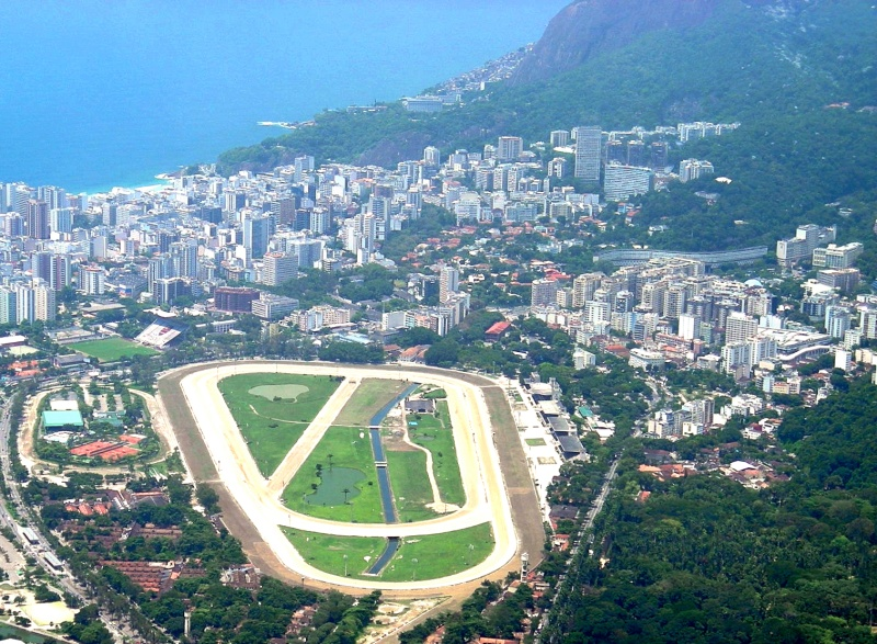 Gávea, Rio de Janeiro, Brazil. Jockey Club of Gávea.